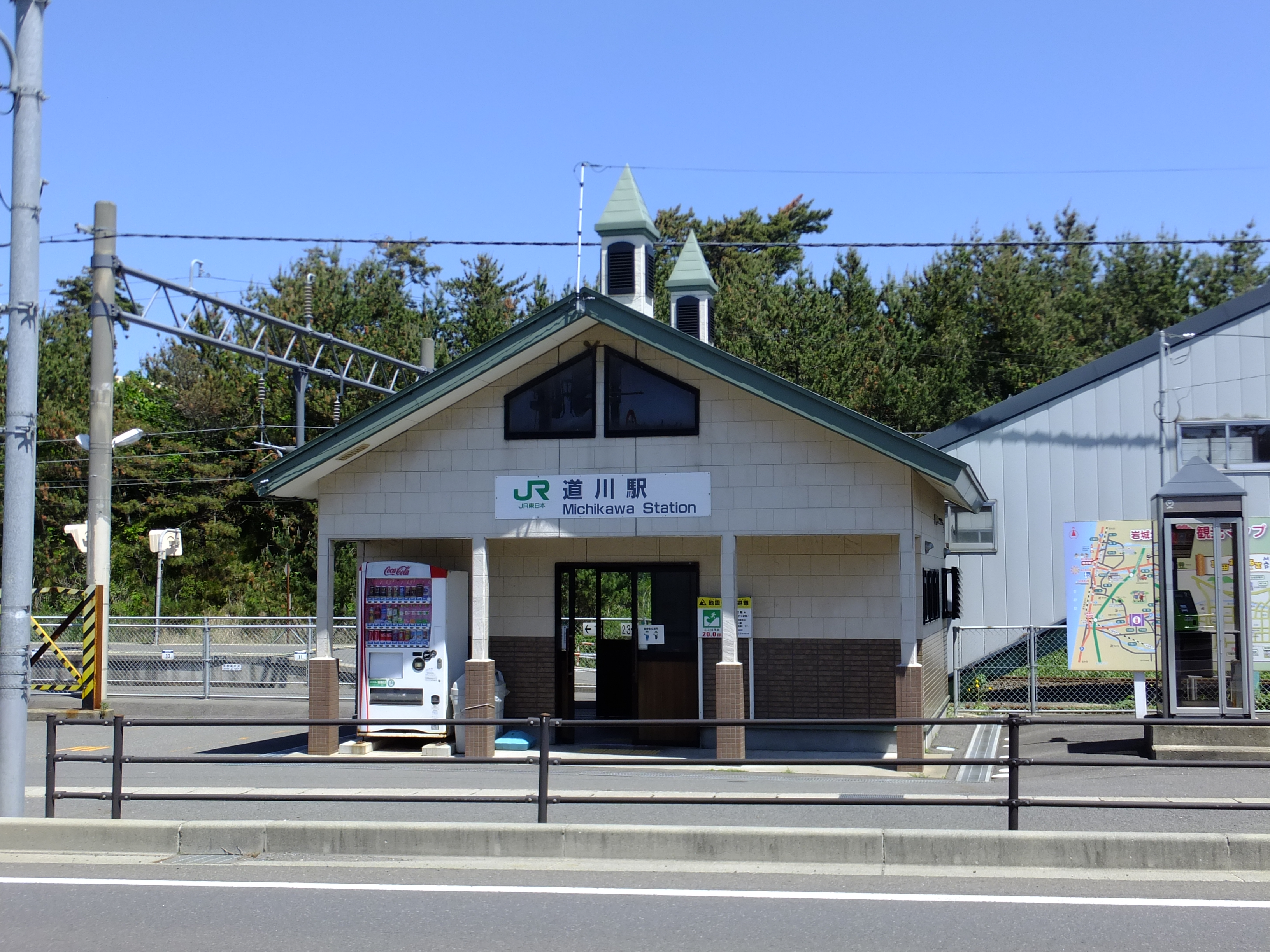 Michikawa Station on the Uetsu Main Line, in Yurihonjo City, Akita, Japan